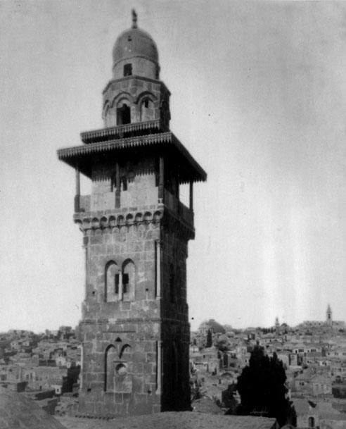 General view of the Ghawanima Minaret of the al-Aqsa Mosque. Antonia tower (El-Ghawanima בני ע'ואנימה or Bani Ghanim Minaret).